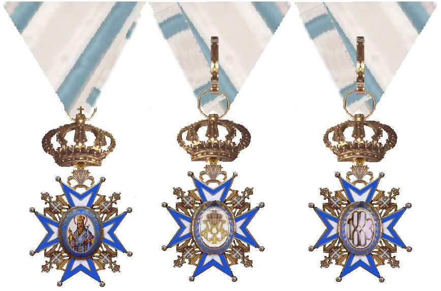 Cross of the Order of Saint Sava, 1903 front, reverse en reverse after 1903